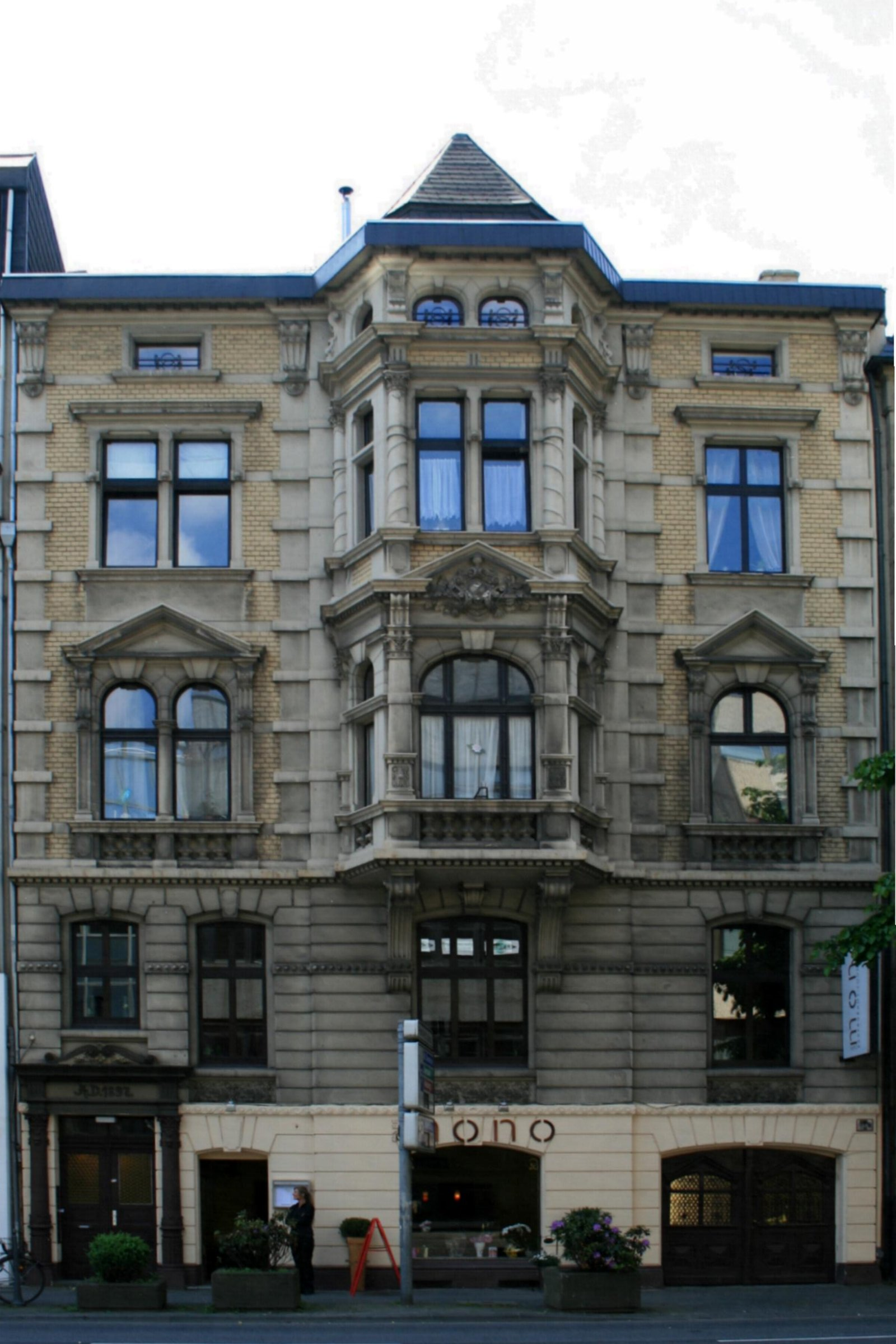 Cultural heritage monument No. B 004 in Mönchengladbach